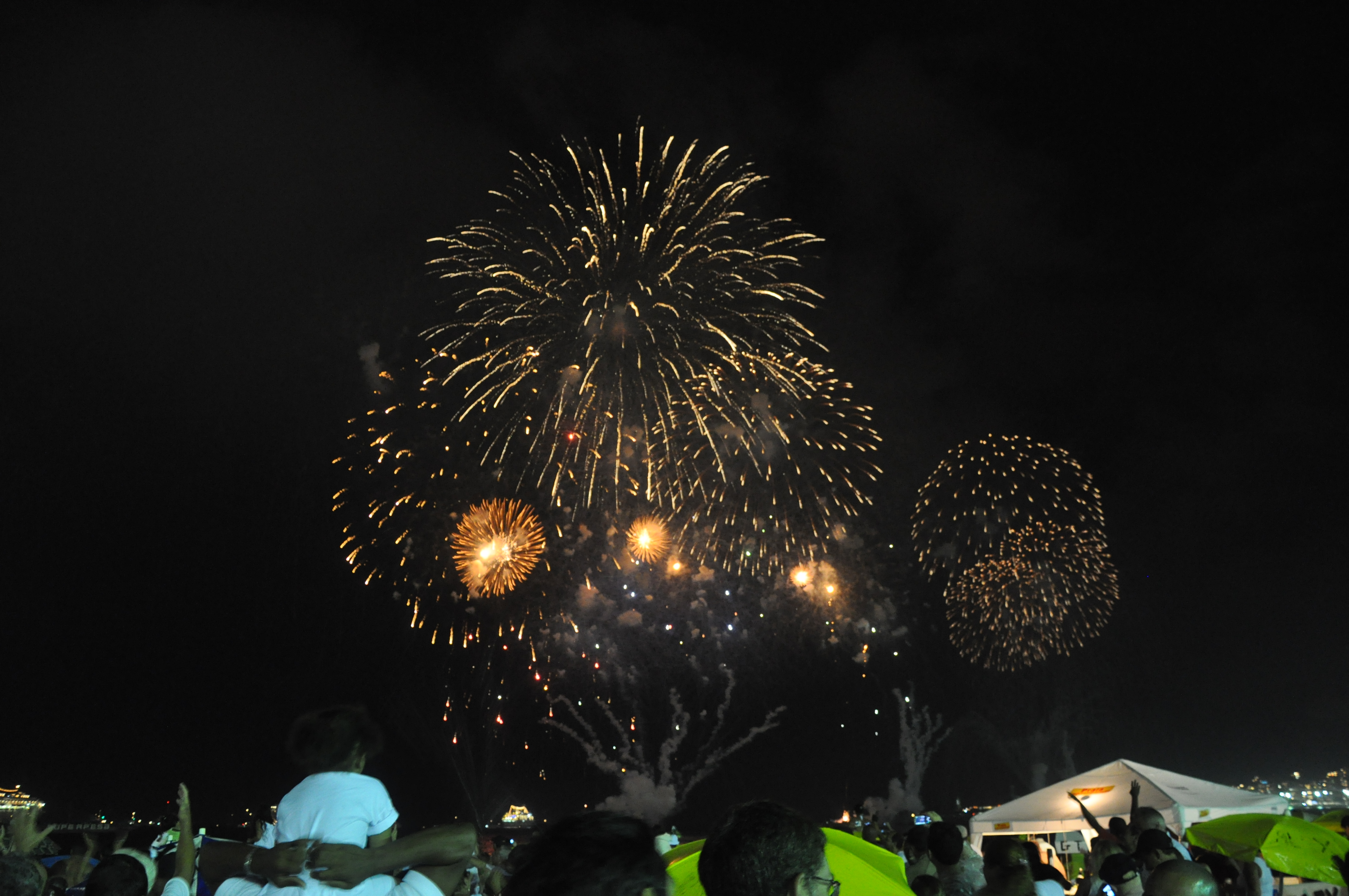 New Year celebrations at Rio's Copacabana beach